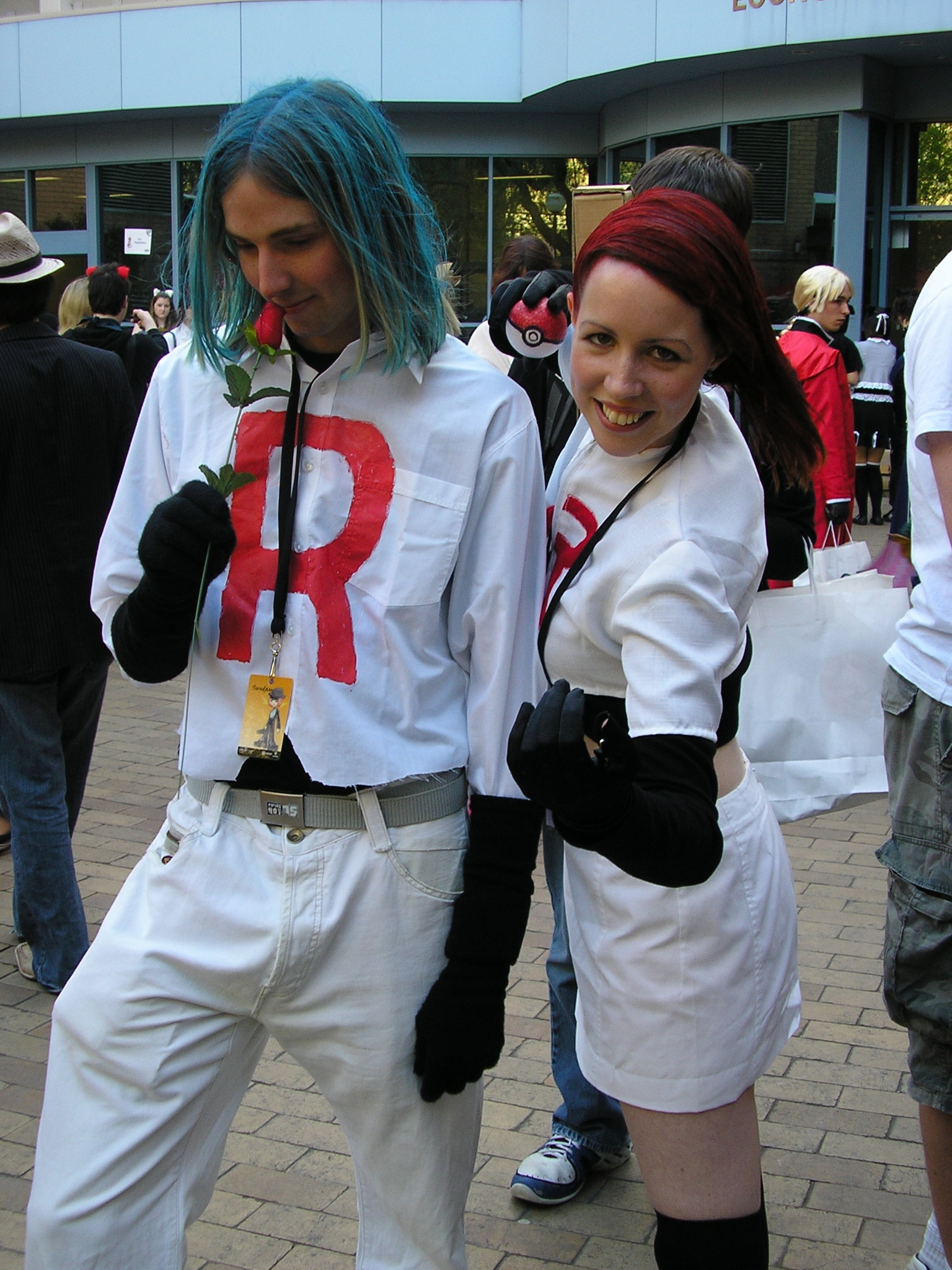 Team Rocket Cosplay